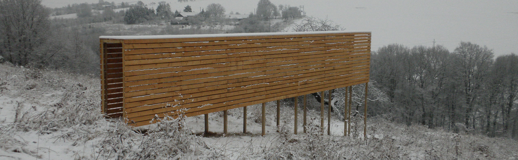 KUK v letních měsících 2011 byl realizován dřevěný objekt s pracovním názvem POLEH /autor Jan Ambrůz /